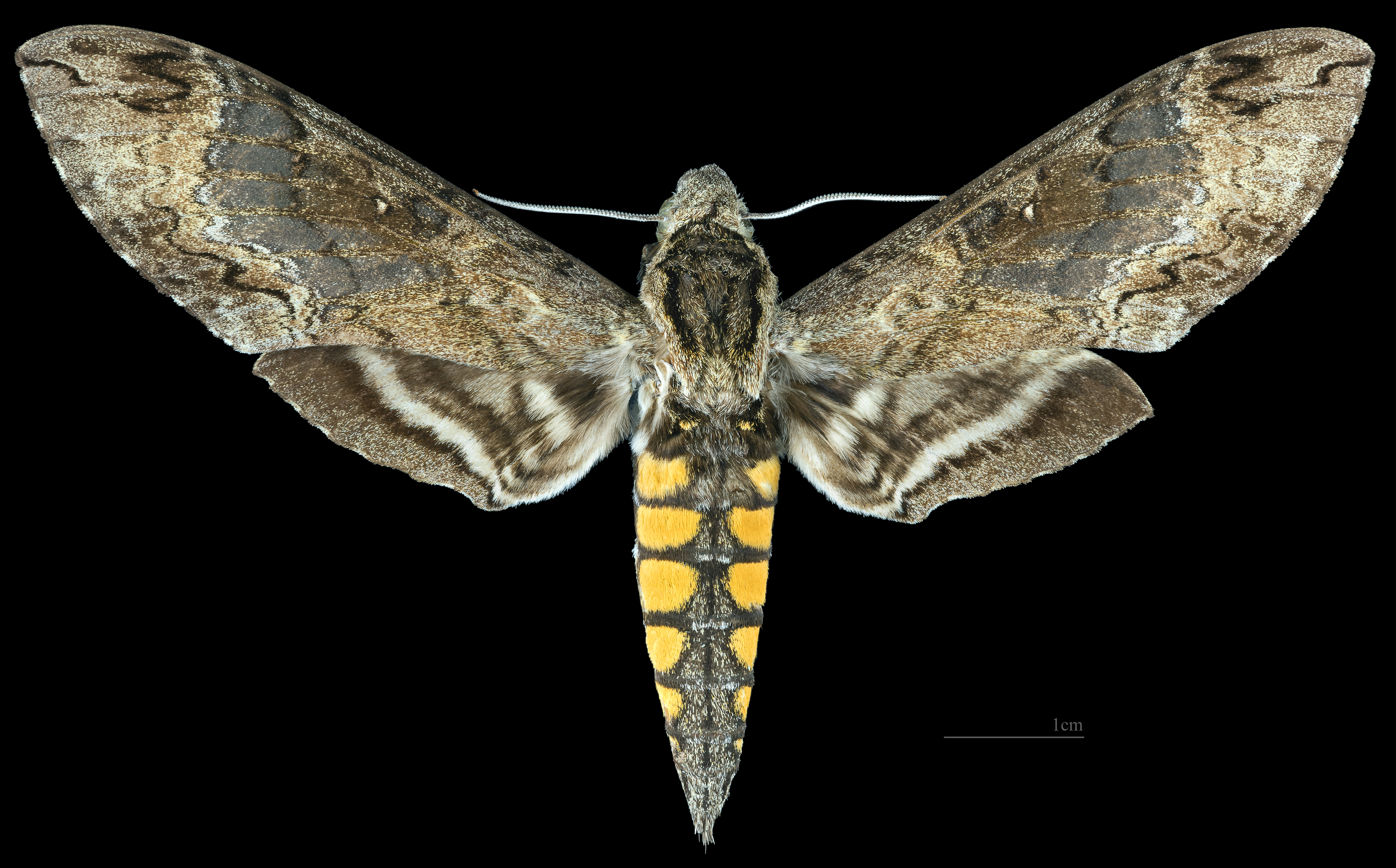 Manduca reducta - Dorsal side Collection of the Mathematician Laurent Schwartz